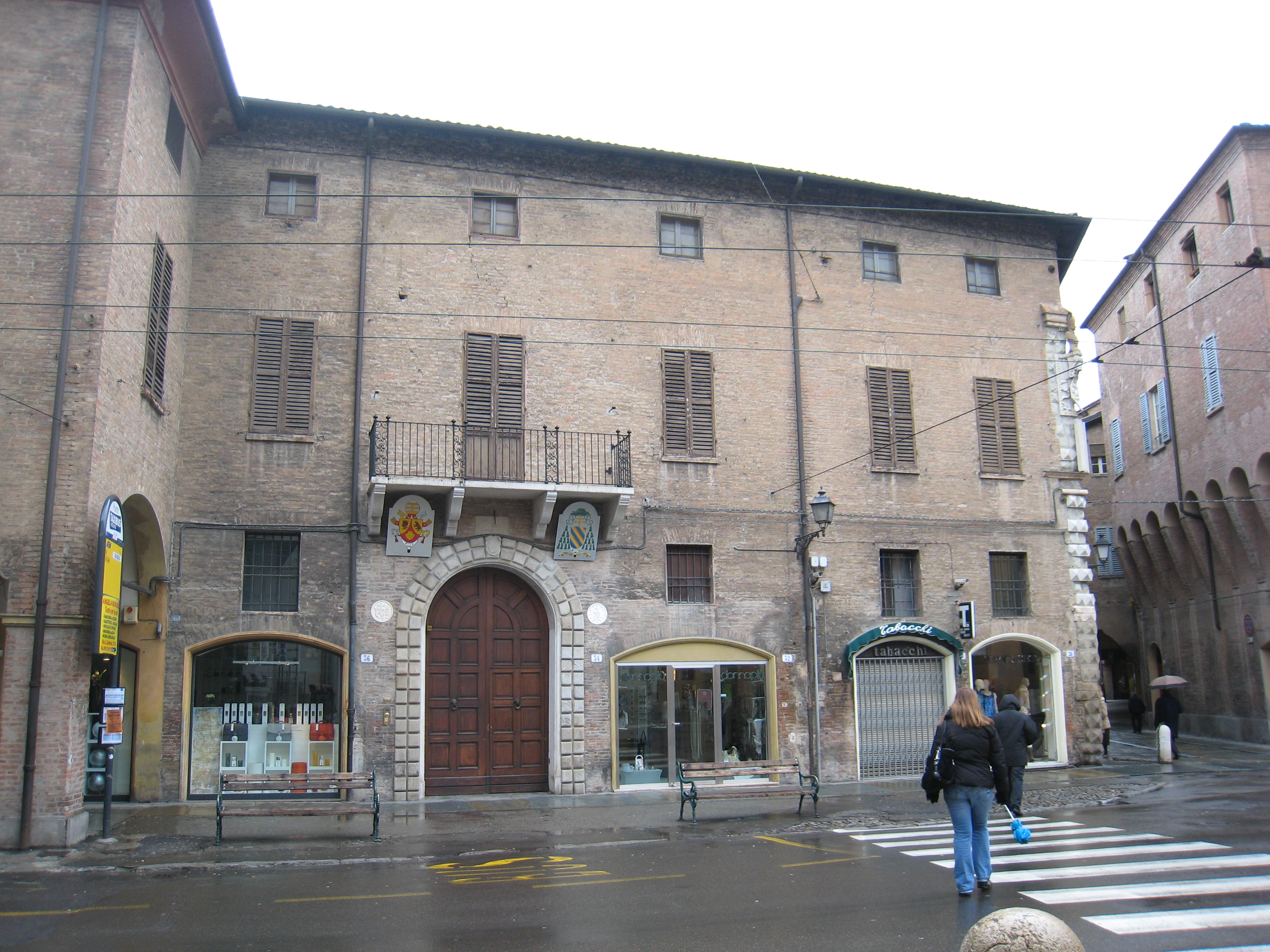 Façade of Archbishop's Palace in Modena, Italy